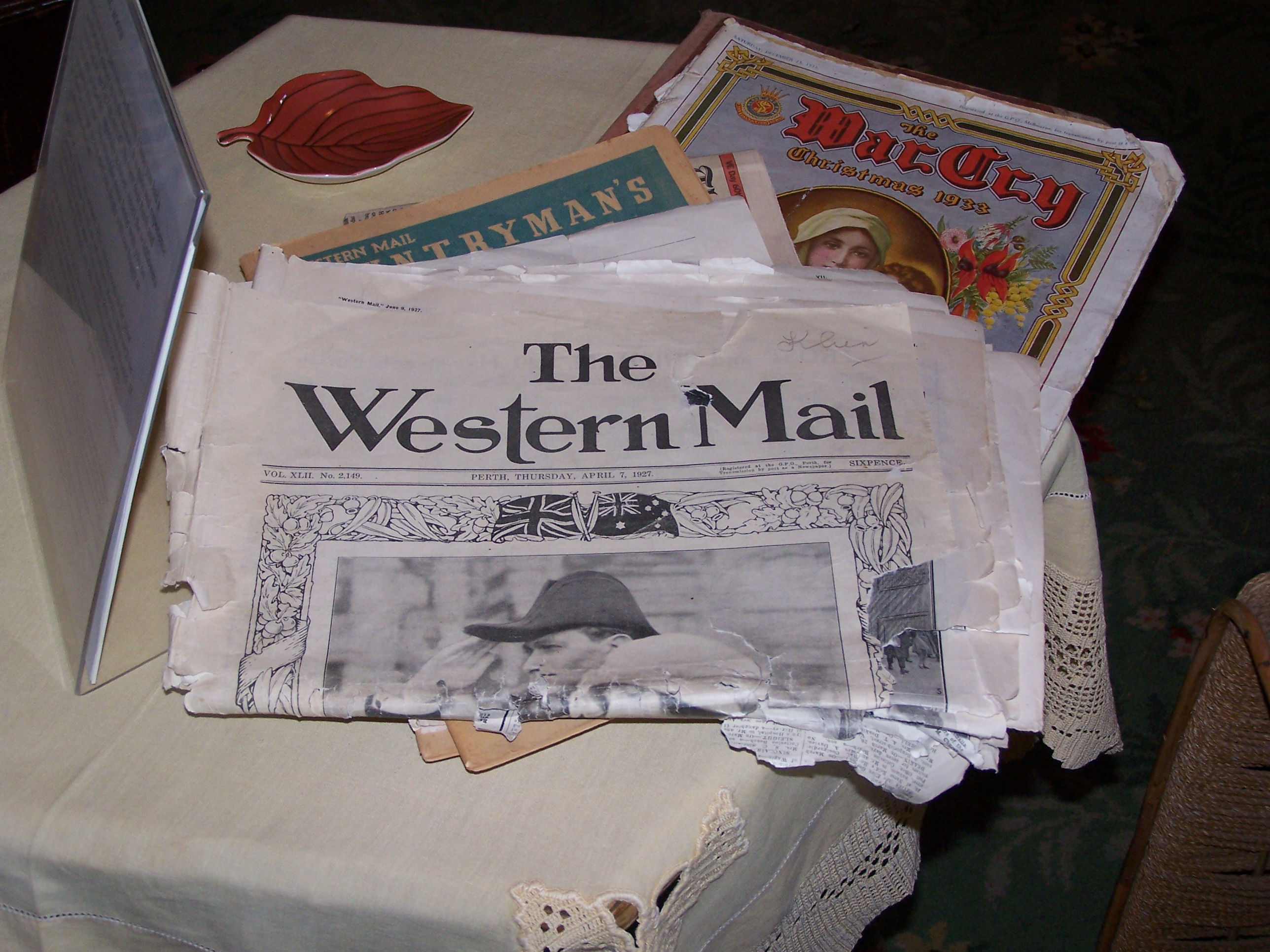 Western Mail newspaper April 7 1927 edition cost sixpence, behind is The Countryman from the same date and also printed by Western Mail. Additionally is The War Cry printed by the Salvation Army from 1933.Image was taken in the Kalamunda Historical Village